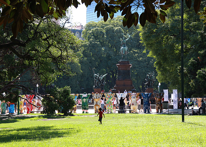 United Buddy Bears in Buenos Aires, Plaza San Martin